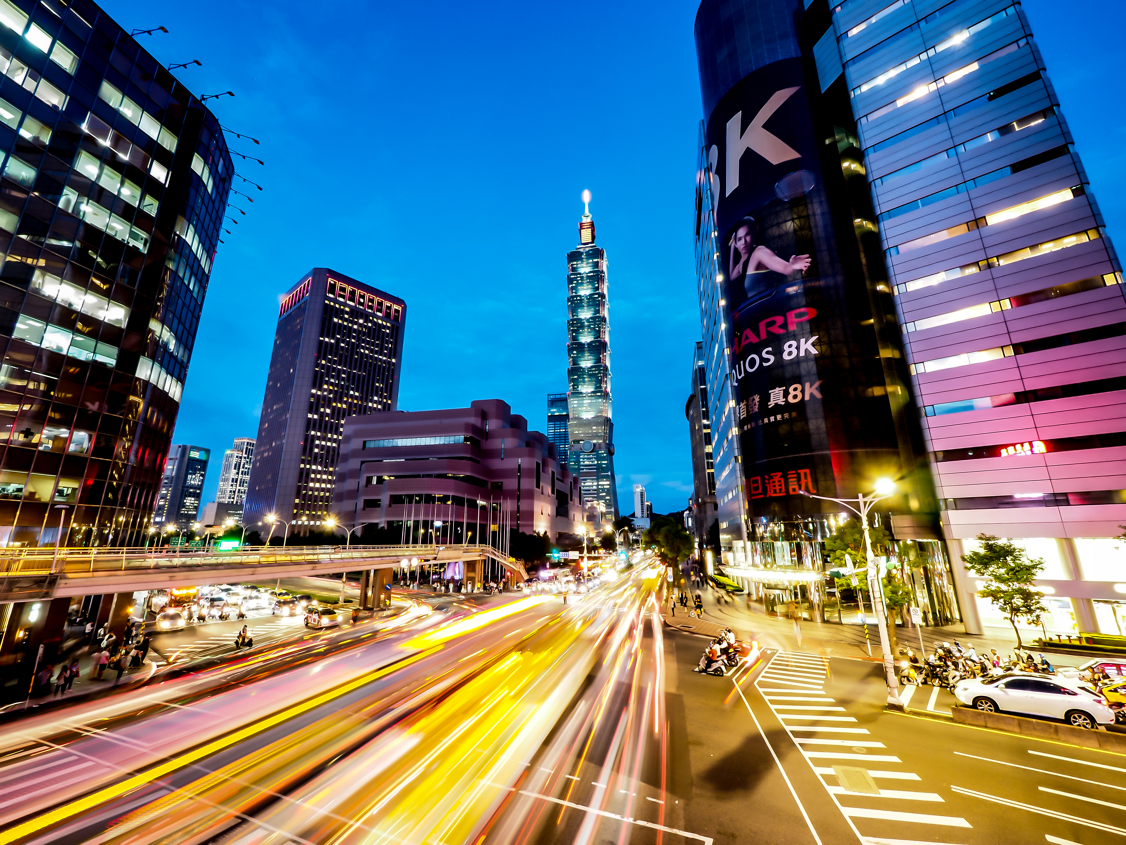 Taipei World Trade Center International Trade Building (TWTC ITB), Taipei International Convention Center (TICC), Taipei 101 and Aurora Plaza at night.